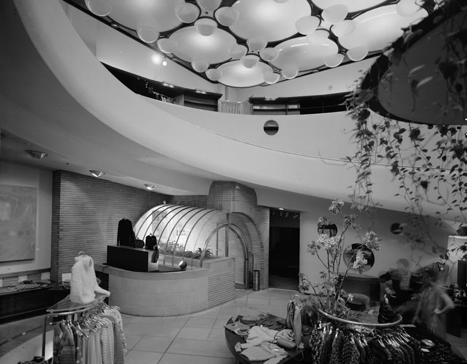 V. C. Morris Gift Shop, 140 Maiden Lane, San Francisco, San Francisco County, CA - interior, general view from base of ramp. Historic American Buildings Survey—HABS image.